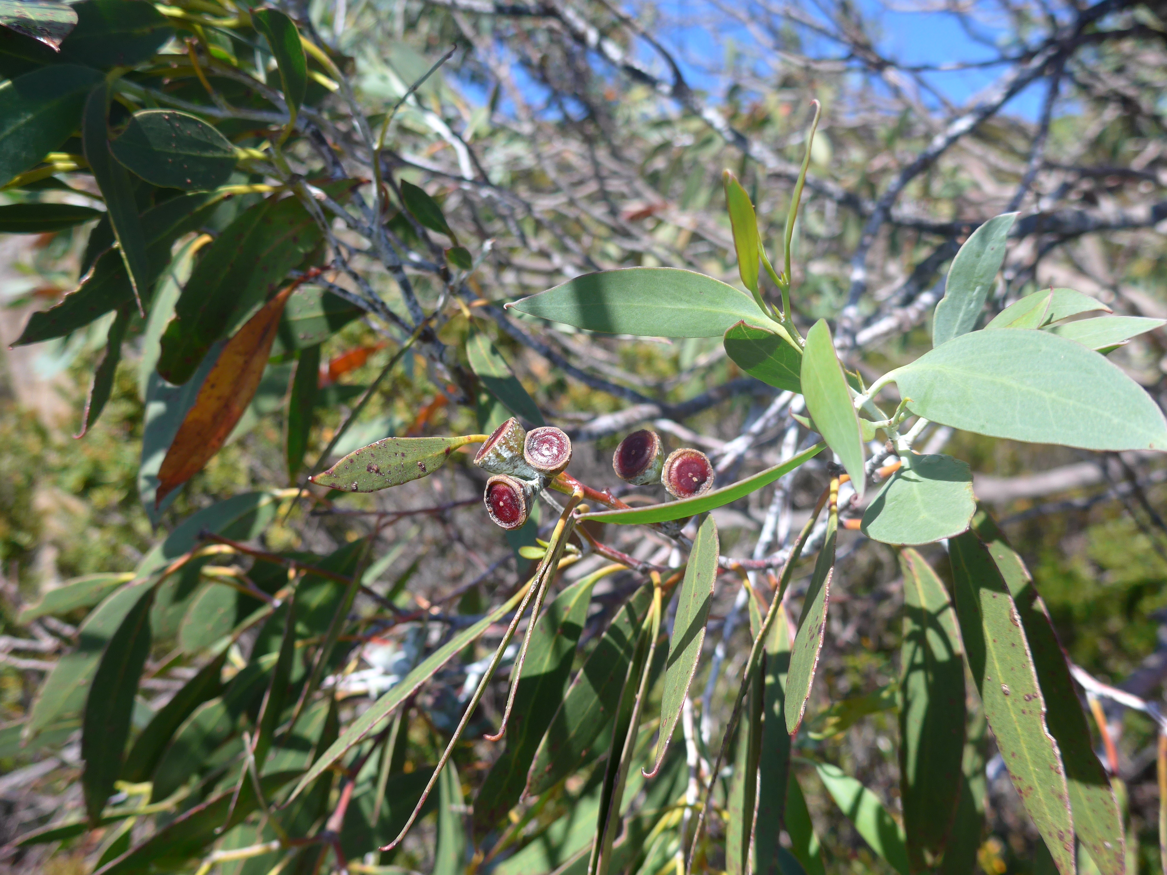 Taken in Mt. Field National Park, around 1200m above sea level.